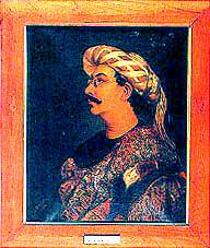 Portrait of Devendranath (Debendranath) Tagore (1817 – 1905), father of Rabindranath Tagore